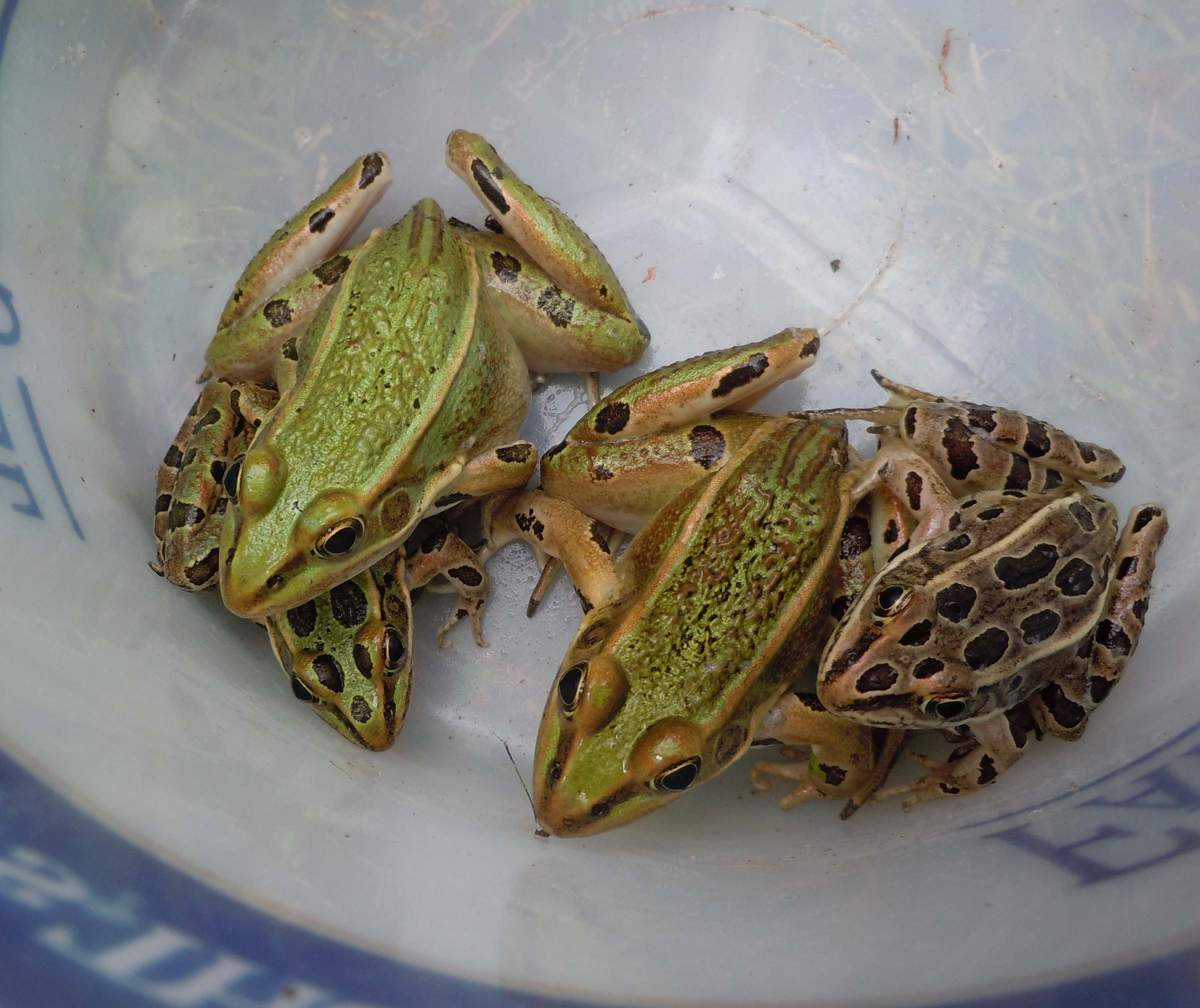 Two Burnsi Morphs, a Green Morph, and a Brown Morph of the Northern Leopard Frog (Rana pipiens). Minnesota